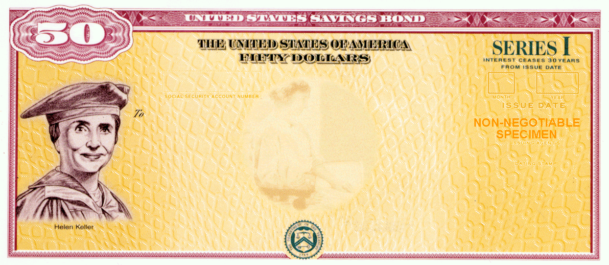 A blank $50 Series I US Savings Bond featuring Helen Keller as the historical figure